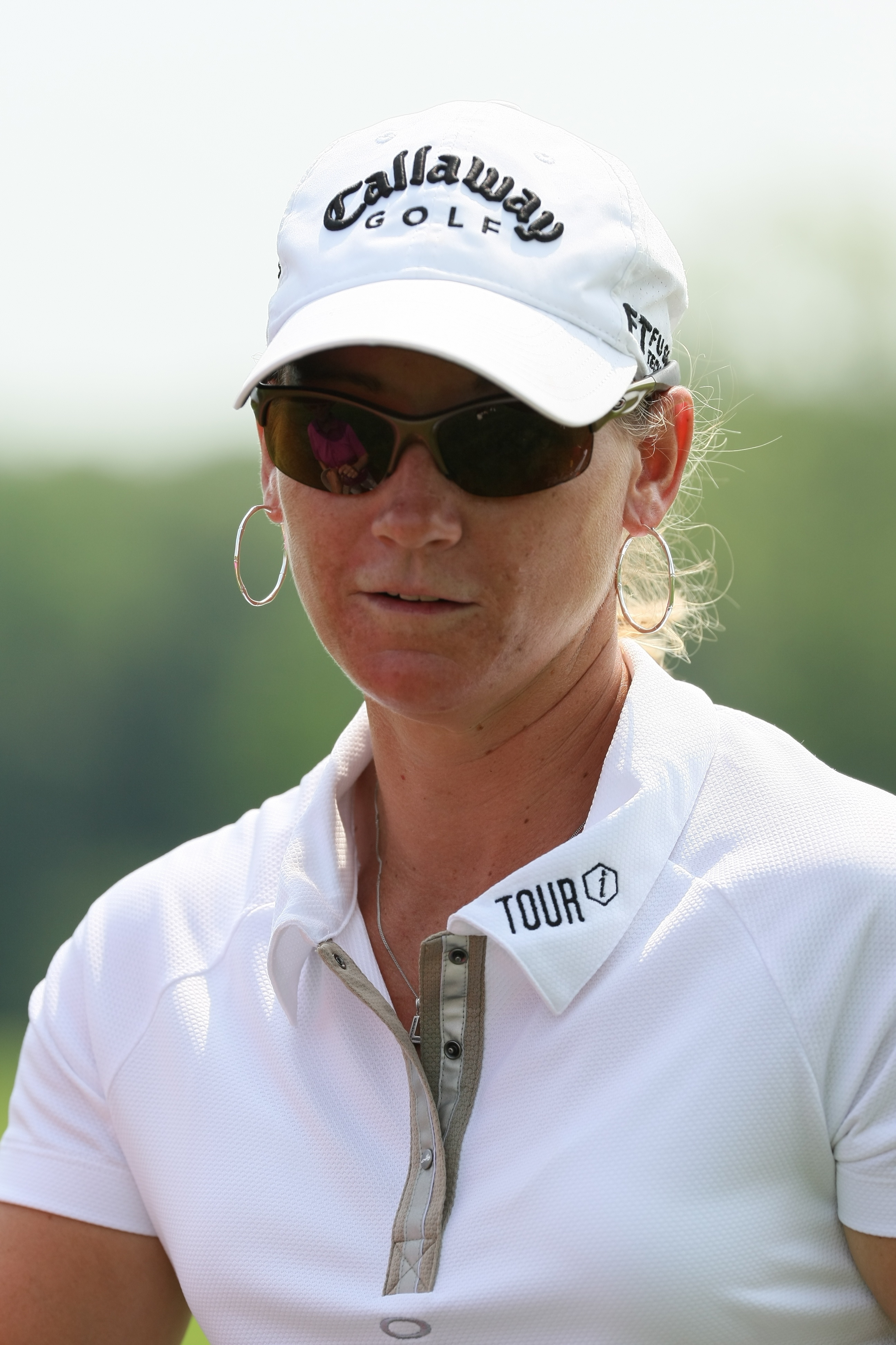 HAVRE DE GRACE, MD - JUNE 09: Kristy McPherson (USA) during Pro-Am before 2009 LPGA Championship held at Bulle Rock Golf Course, on June 9, 2009 in Havre de Grace, Maryland. (Photo by Keith Allison)